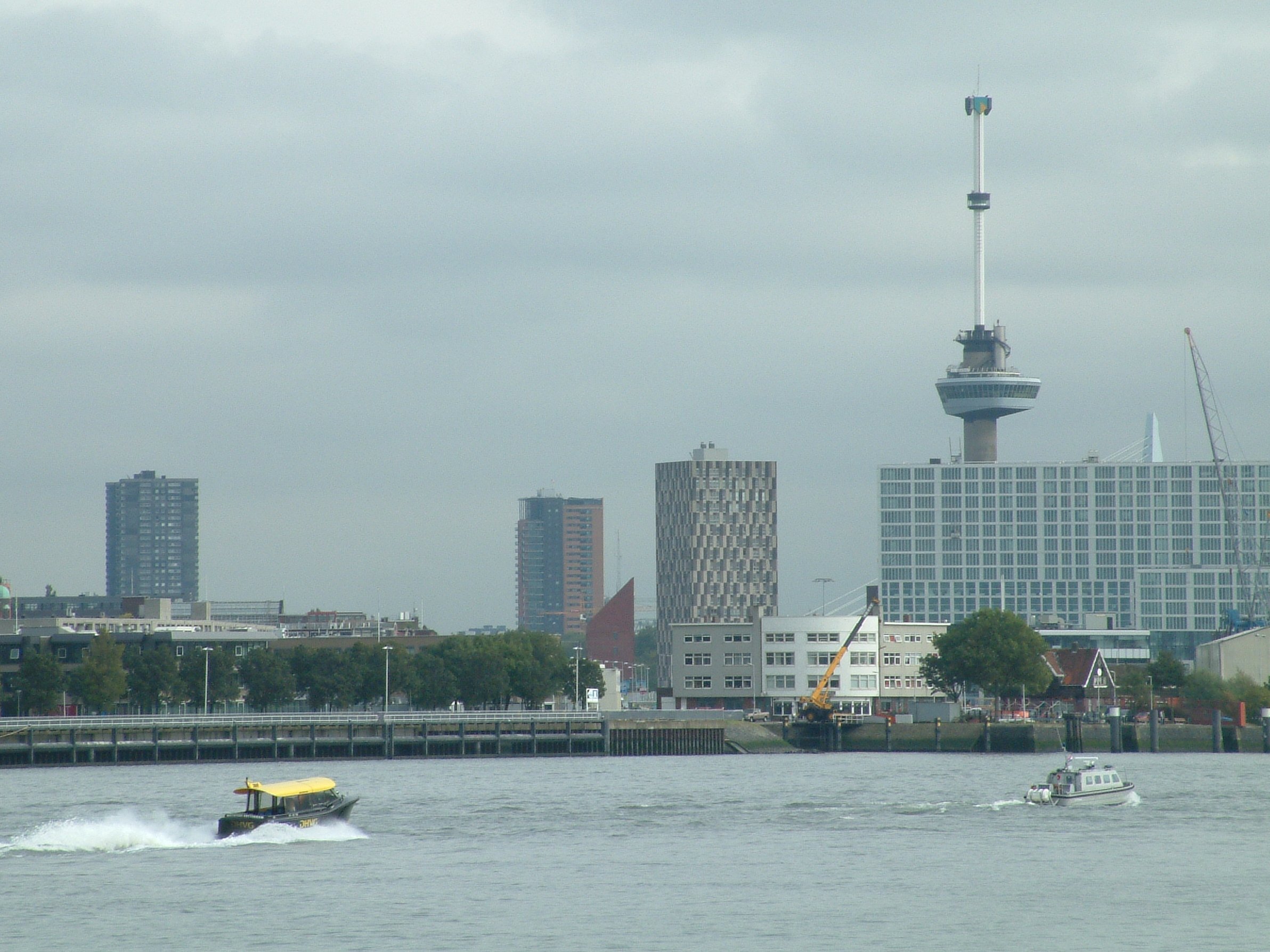 Watertaxi in the harbour of Rotterdam